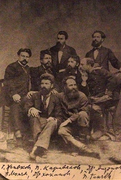 Prime-minister Petko Karavelov with some other politicians and friends.